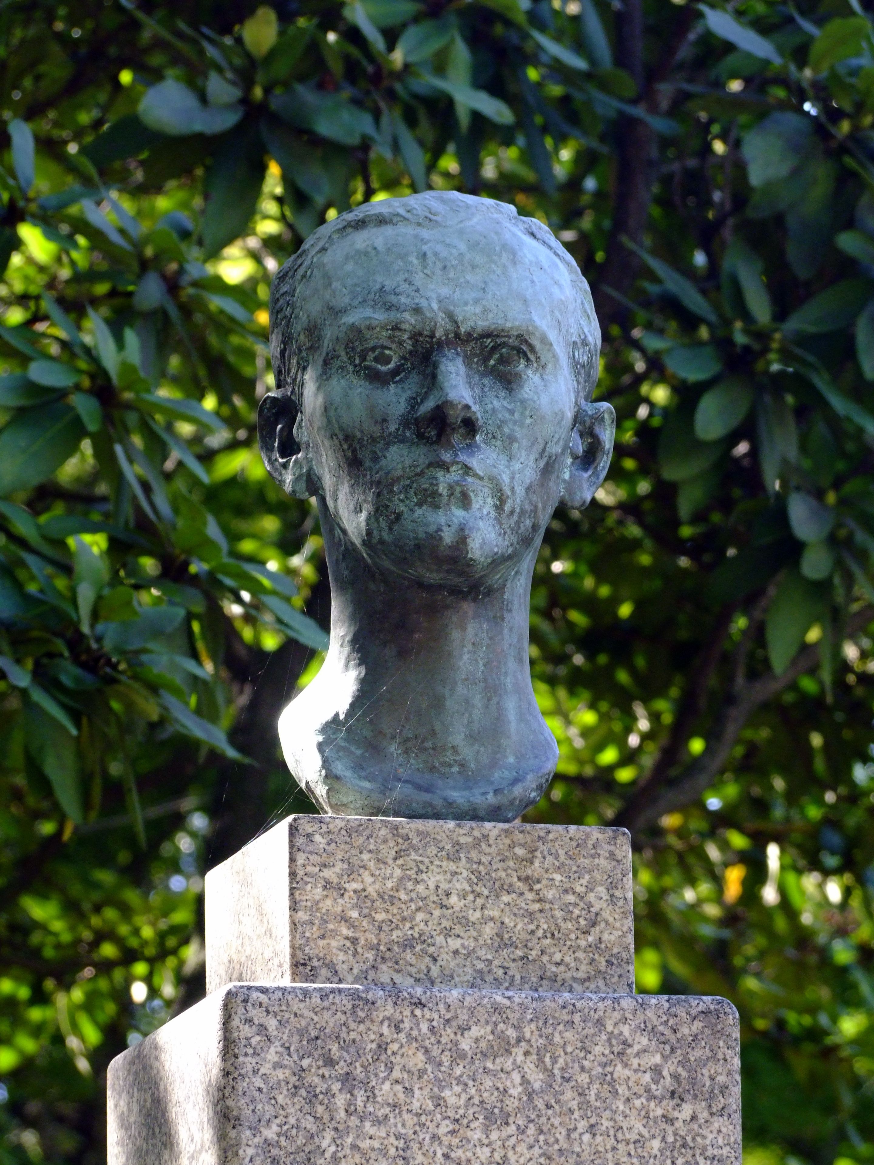 Bust of the writer Ruben A., by Barata Feyo, at the Botanical Garden of Oporto, Portugal.